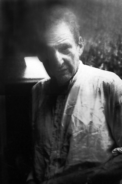 Lucien Freud (superposed image of two frames)